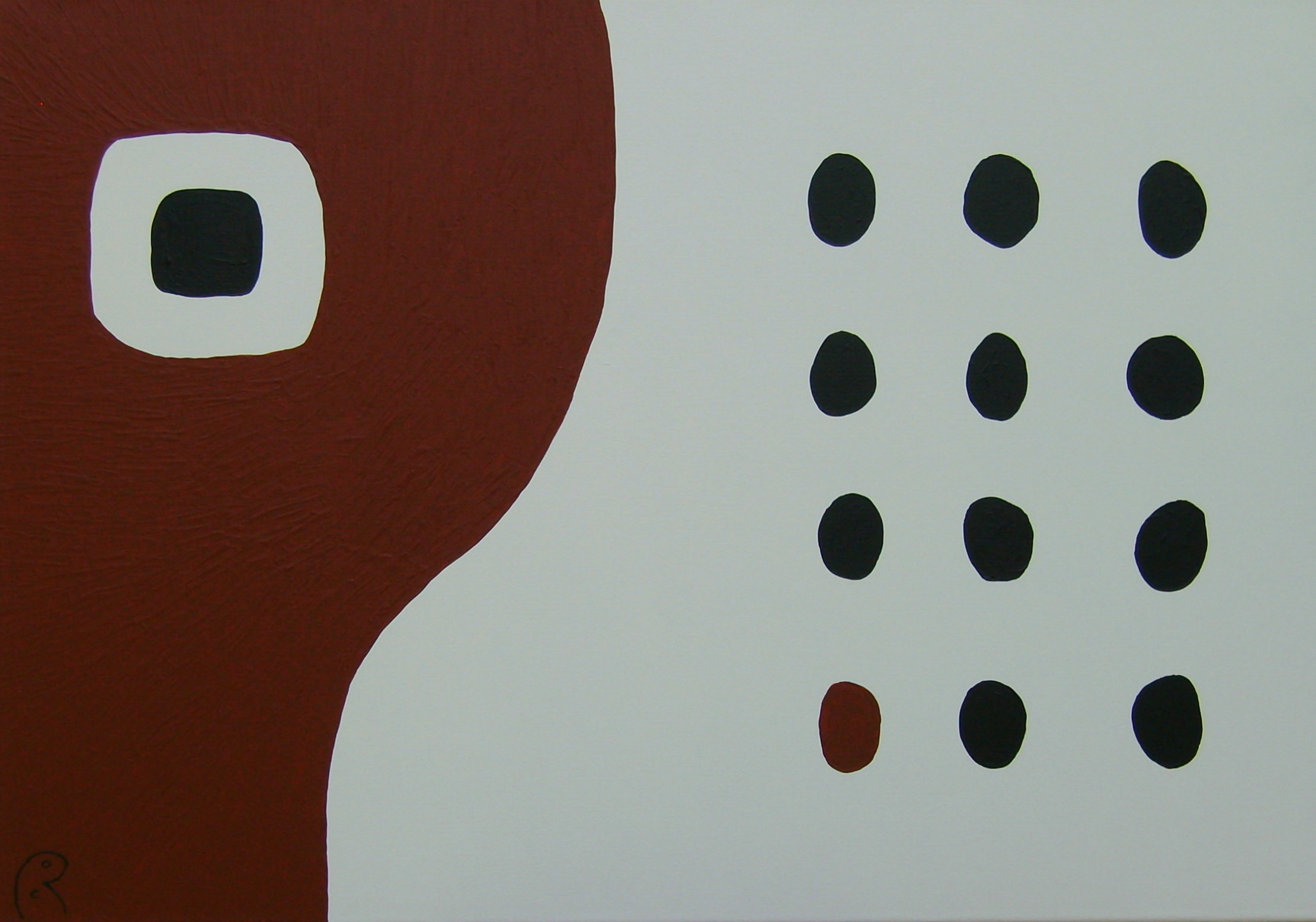 This painting by Jan Theuninck depicts the terror, caused by chemical warfare, and the thousands of deaths on the battlefields.